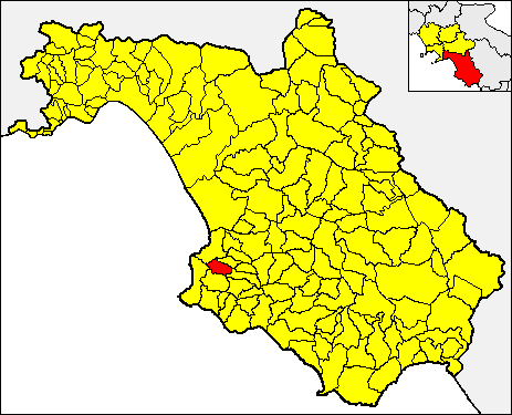 Locator map of the municipality of Laureana Cilento (red) within the Province of Salerno